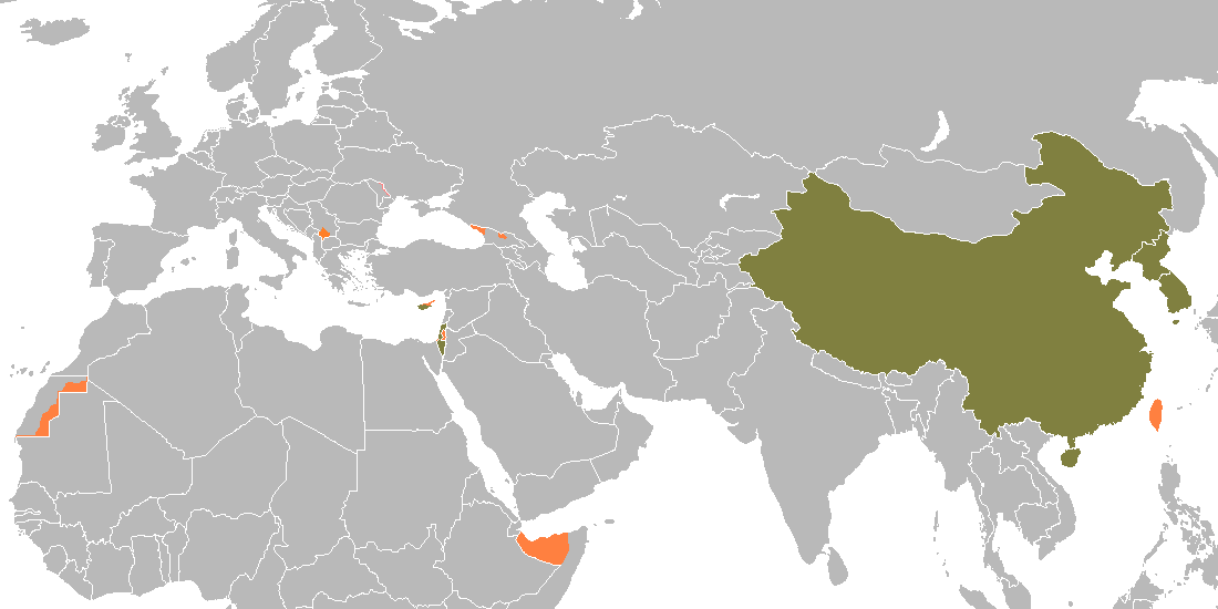 Unrecognized & partially recognized countries